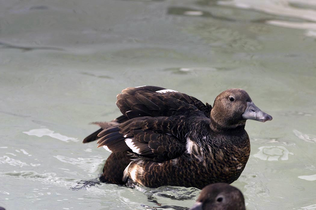 Photo credit: Laura L. Whitehouse/USFWS